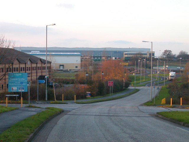 Daventry. Drayton Fields Industrial Estate showing Exel Logistics warehouse for J D Wetherspoon